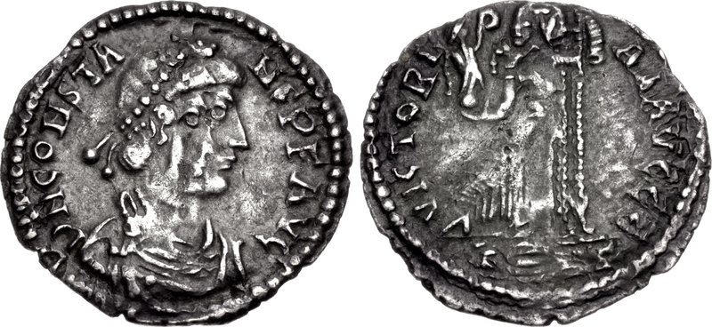 Constans II. Usurper. AD 409/10-411. AR Siliqua (16mm, 1.34 g, 6h). Arelate (Arles) mint. D N CONSTA NS P F AVG, pearl-diademed, draped, and cuirassed bust right / VICTORI A AAVCC, Roma seated left on cuirass, holding Victory on globe and reverted spear; KONT. RIC X 1540; Ferrando 1711 (rev. only illustrated; same die); King, Fifth –; RSC 1a.